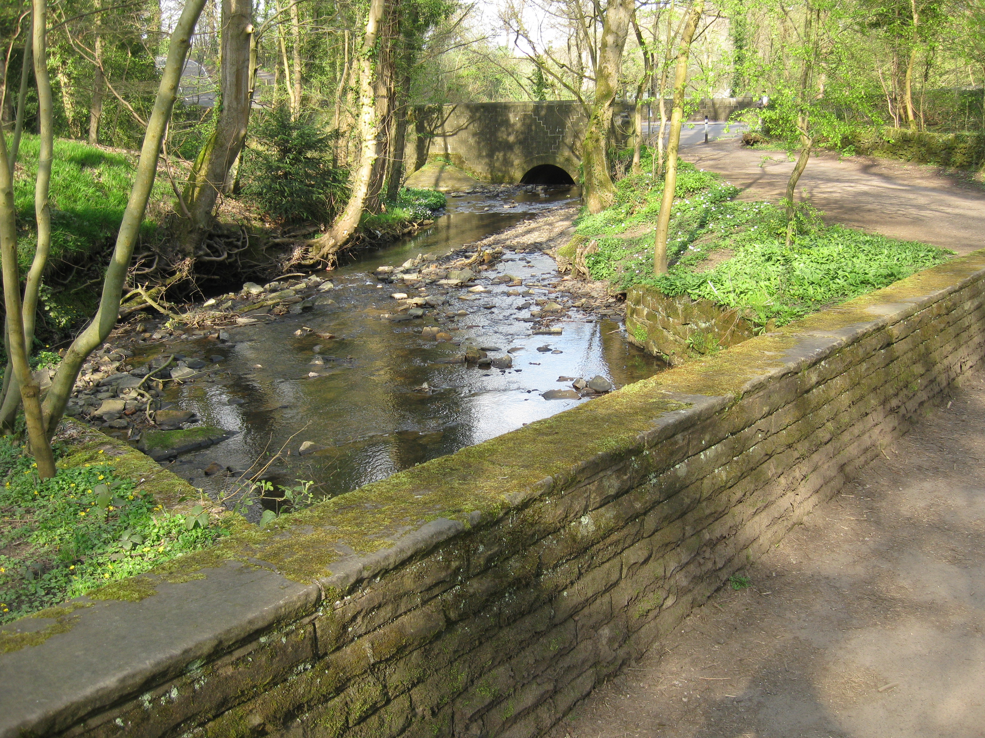 Porter Brook, with the bridge over Hangingwater Road, Sheffield.